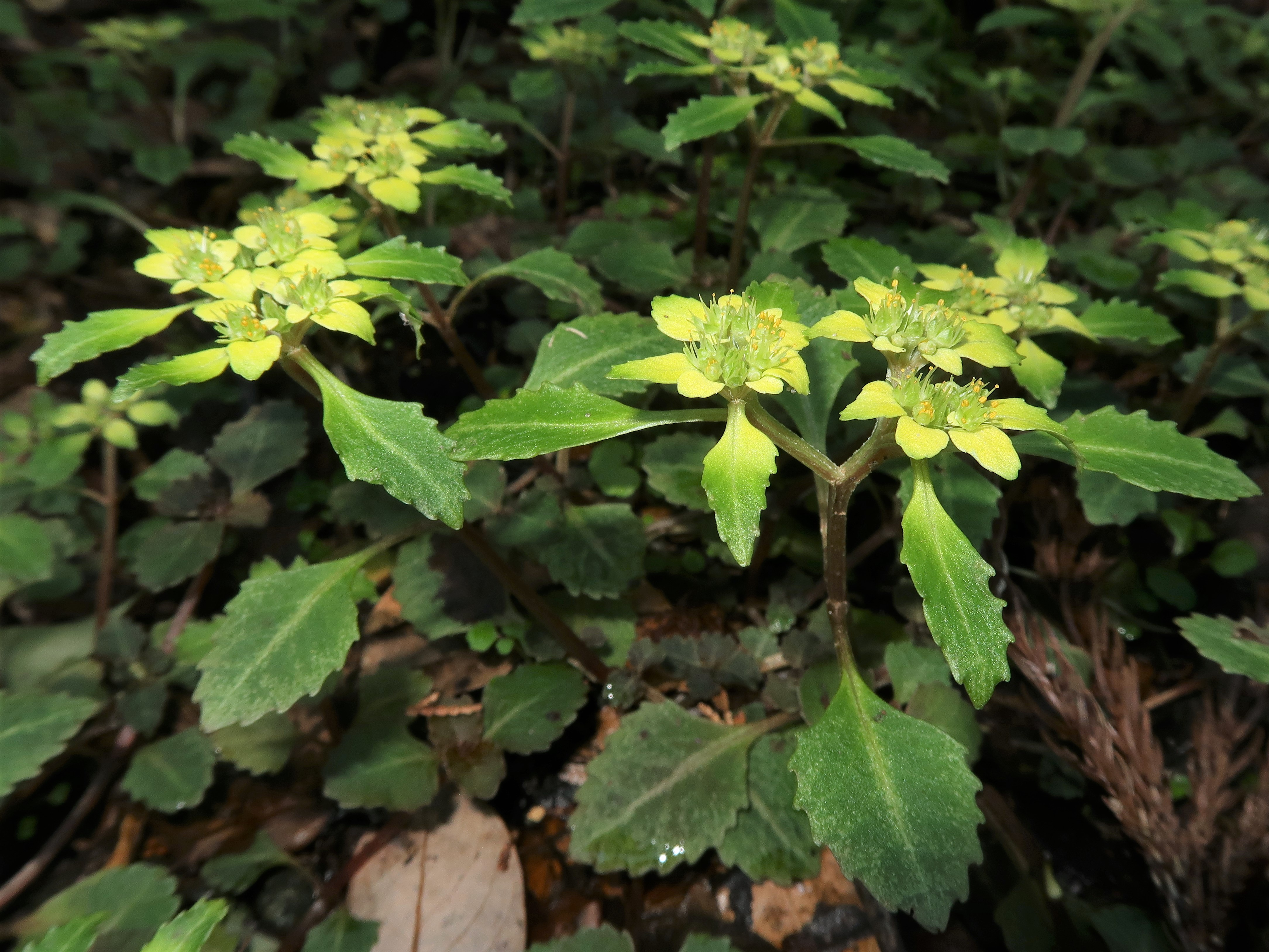 Chrysosplenium macrostemon, Miura Peninsula, Kanagawa pref., Japan